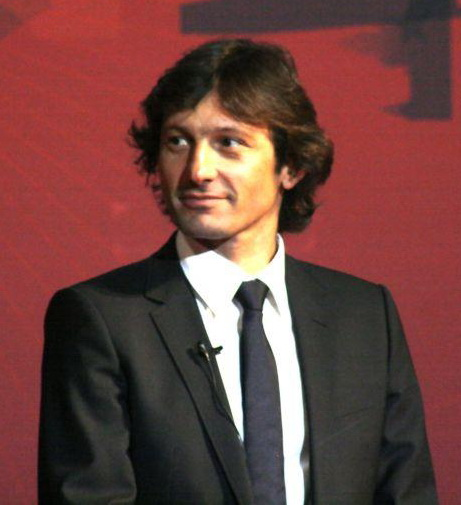 Leonardo Nascimento de Araújo